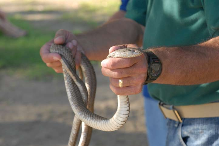 Dr. Peter Tolson, the director of conservation and research at the Toledo Zoo in Ohio, shows one of the snakes that can be found on Naval Station Guantanamo Bay during a reptile show at Windmill Beach, Nov. 22. Tolson regularly visits Guantanamo to study its unique creatures such as the Cuban Boa and to give presentations to residents. – JTF Guantanamo photo by Navy Petty Officer 3rd Class Justin Smelley